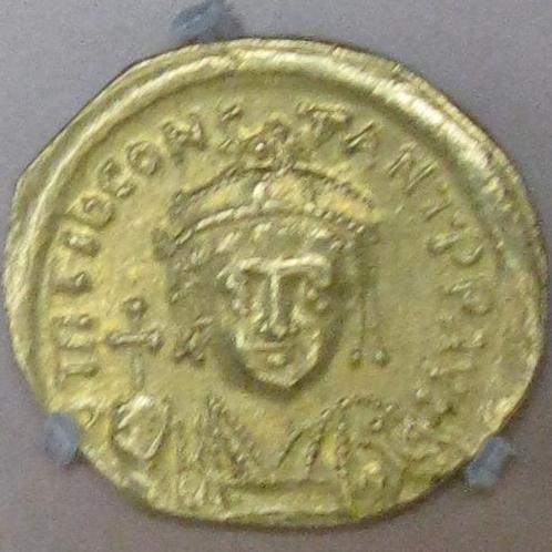 Solidus of Tiberius II. Numismatics Museum in Athens.